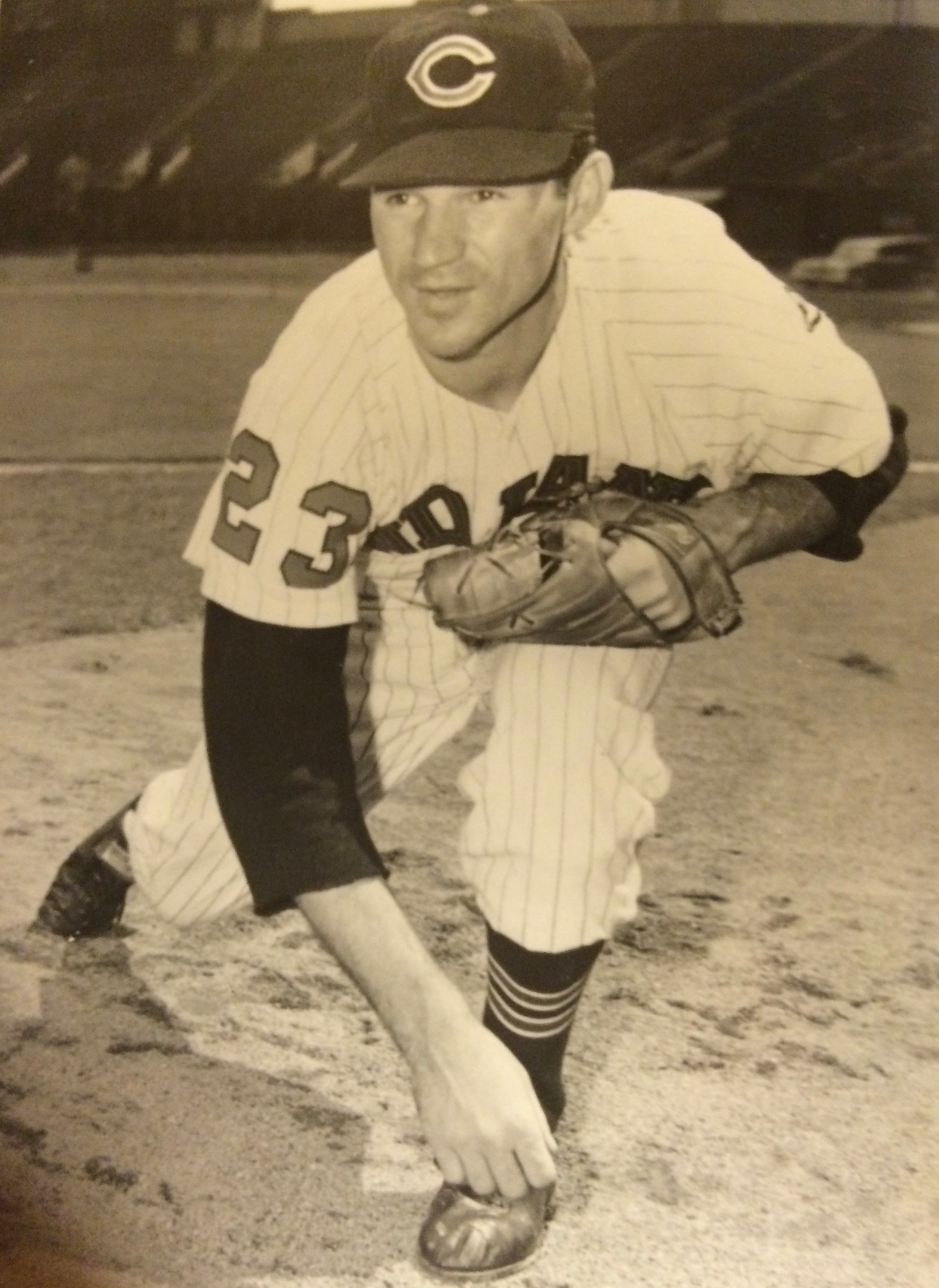 Lawrence Donald Bobby Locke during his baseball career with the Cleveland Indians.